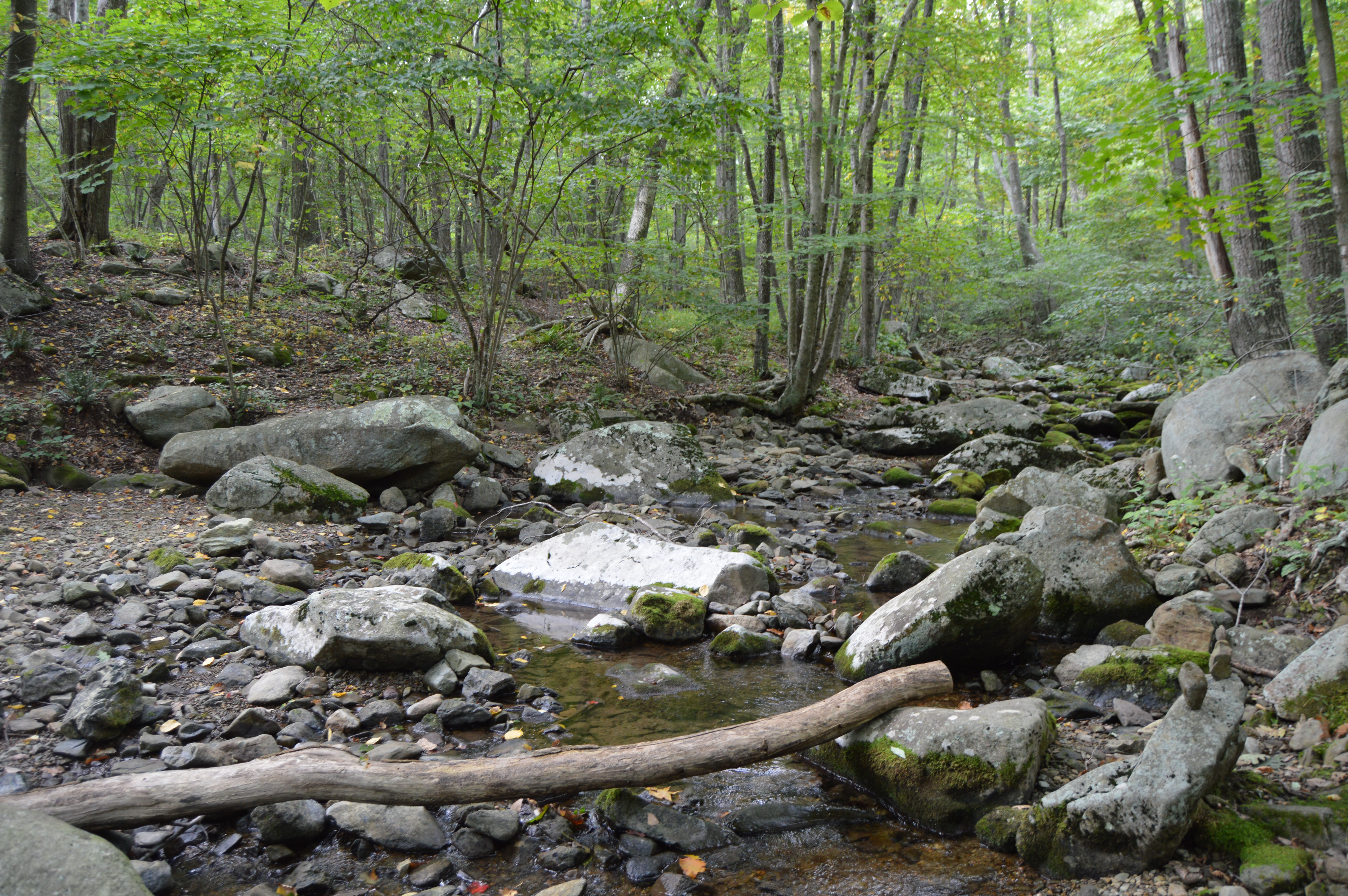 Near the source of the Hughes River, seen from a trail by the Corbin Cabin, in the Madison County section of Shenandoah National Park in the U.S. state of Virginia.